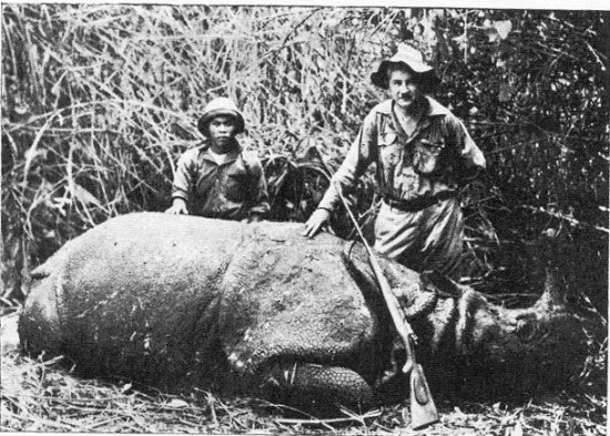 Male Javan rhino shot on 31 January 1934 at Sindangkerta in West Java. Specimen preserved in the Zoological Museum of Buitenzorg (Bogor). From Sody, 1941, fig. 1, first published in Indonesia.